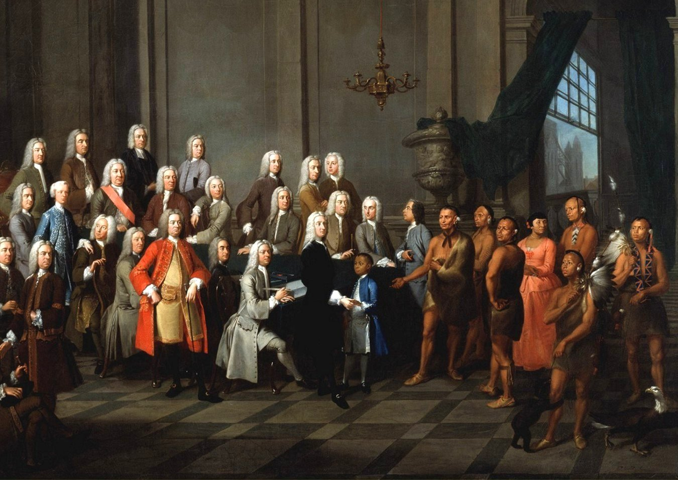 An eighteenth-century oil painting owned by the Winterthur Museum claims to depict James Oglethorpe presenting the Yamacraw Indians to the Georgia Trustees, an event on July 3, 1734, one year after Oglethorpe landed to start the new colony. The 25 bewigged and befrocked Englishmen have been identified. Oglethorpe is standing in the center, receiving an Indian boy by the hand. This suggests the Christianization of Indians, one of the chartered purposes of the philanthropic Georgia colony. The boy is dressed in English style, while the Indian men are in native dress. The Savannah trader John Musgrove (d. 1735) mediates as interpreter. Oglethorpe had boasted that the Lower Creek Nation "is within half a mile of us and has concluded a peace with us giving up their right to all this part of the country… The king comes regularly to church and is desirous to be instructed in the Christian religion and has given to me his nephew, a boy who is his next heir, to educate." The one Indian woman in the painting, also portrayed in English dress, is Tomochichi’s wife Senawchi. The other Indians are usually identified simply as "Indians," though sometimes they are called Creek or "Yamacraw."